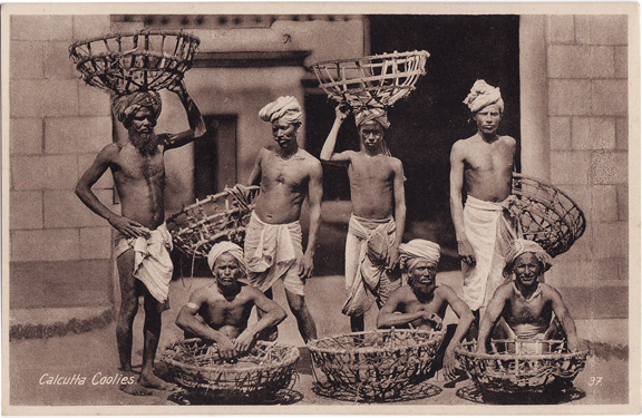 Coolies in Calcutta